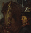 Man depicted holding horse closely matches descriptions of William "Billy" Lee, George Washington's valet/manservant